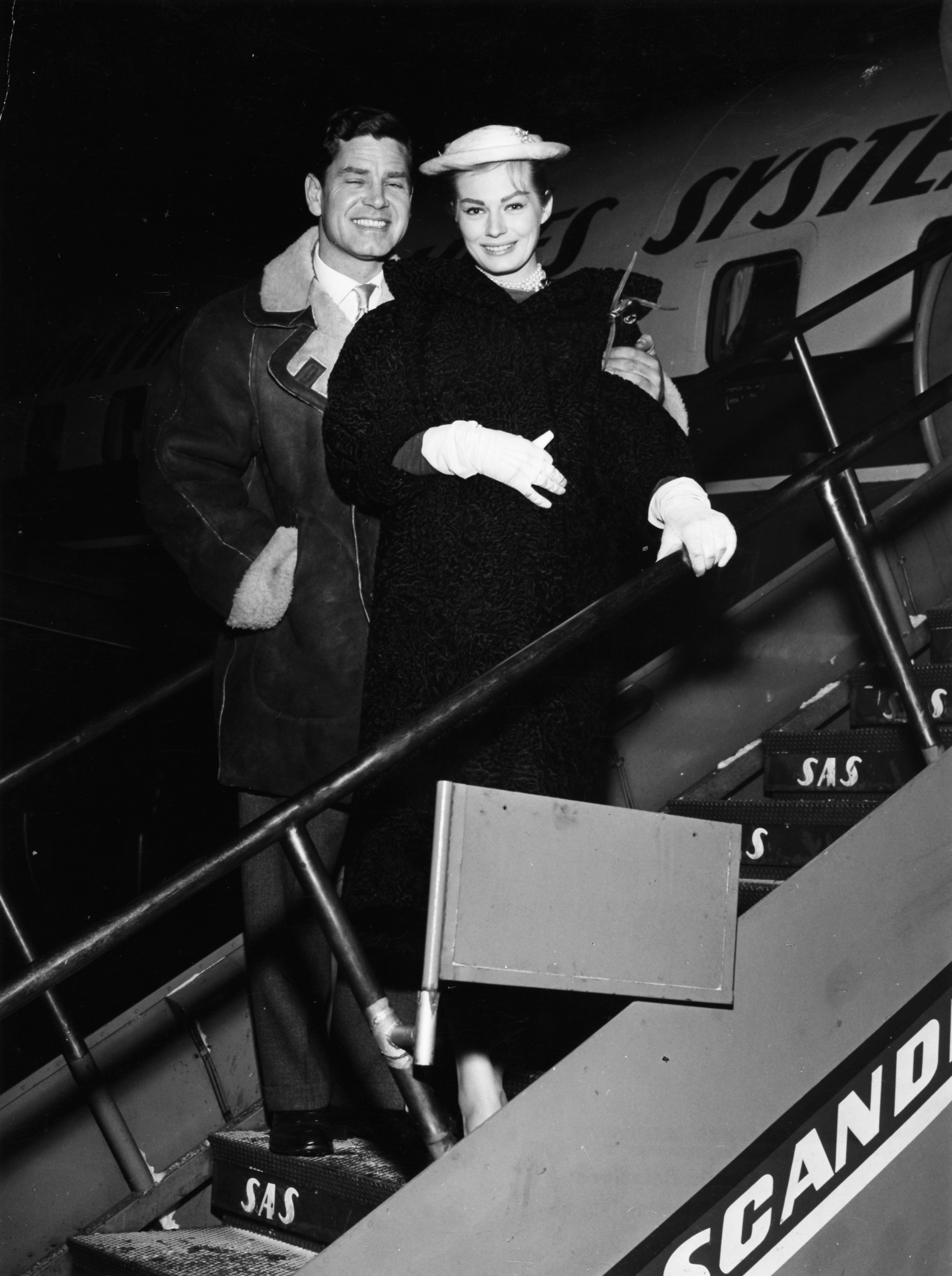 Anita Ekberg, actress, Sweden and Anthony Steel, actor, United Kingdom 1956-02-18